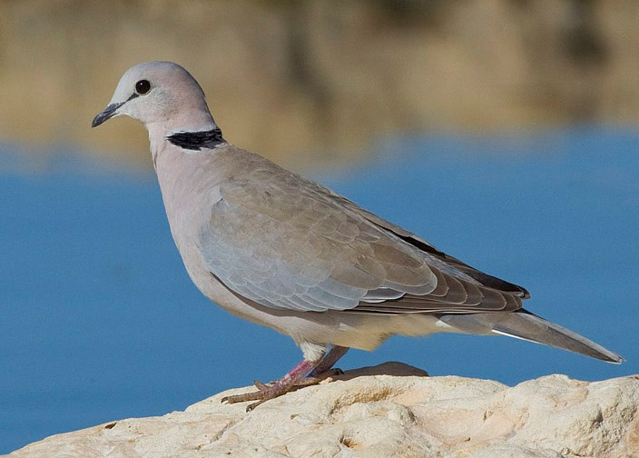 A Ring-necked dove photographed in the Kgalagadi Transfrontier Park, South Africa